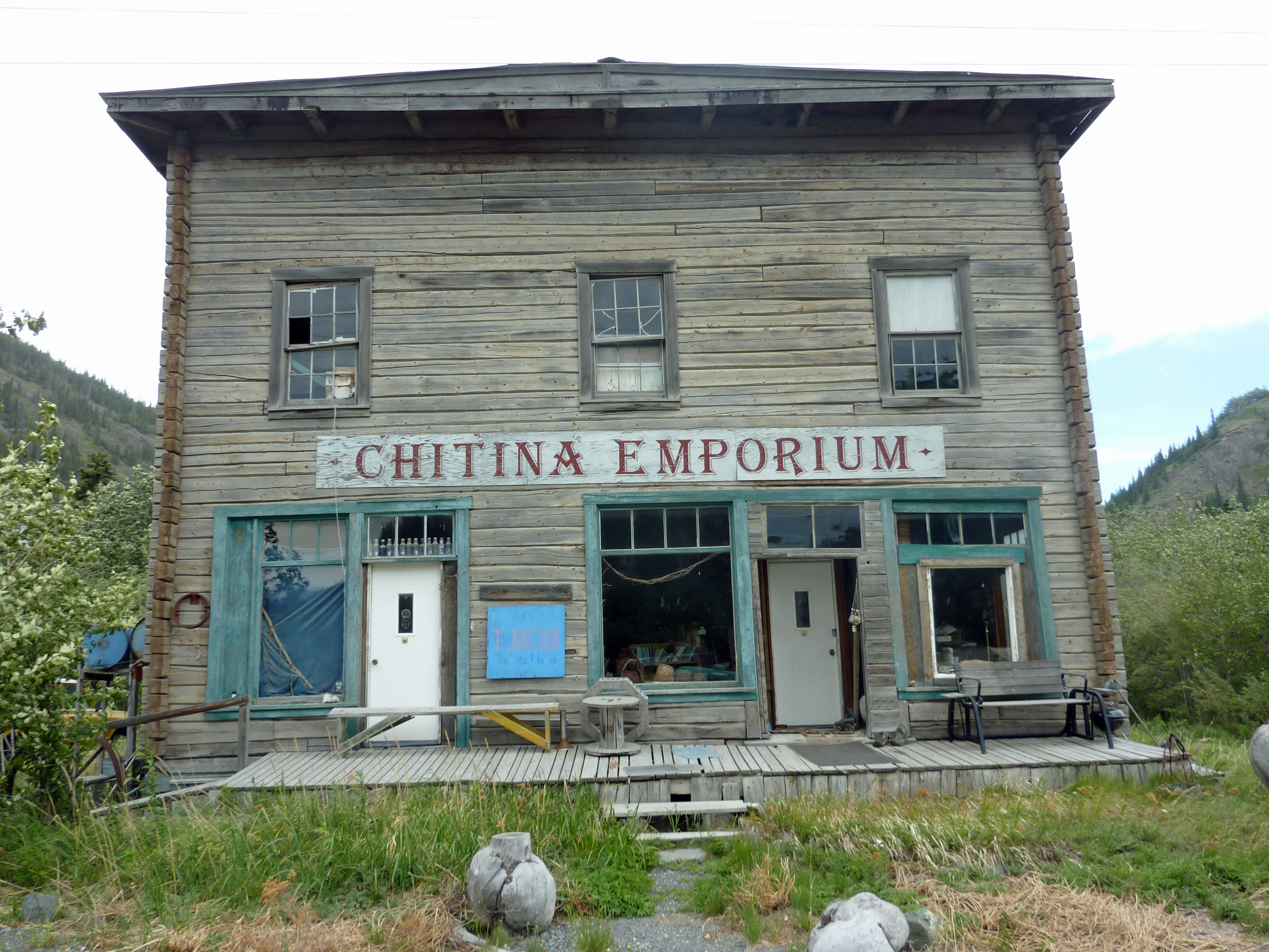 Old commercial building in Chitina, Alaska